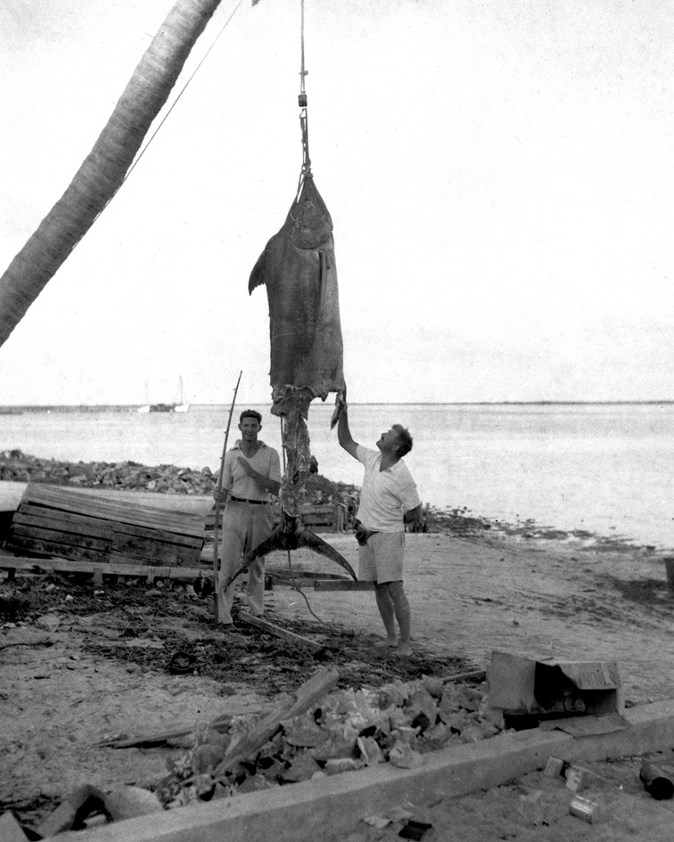 Henry "Mike" Strater and Ernest Hemingway with "apple-cored" marlin. Bimini, Cat Cay, 1935.